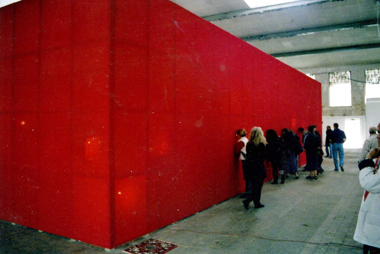 Grand Panorama, exterior view, Trollhätten 2001